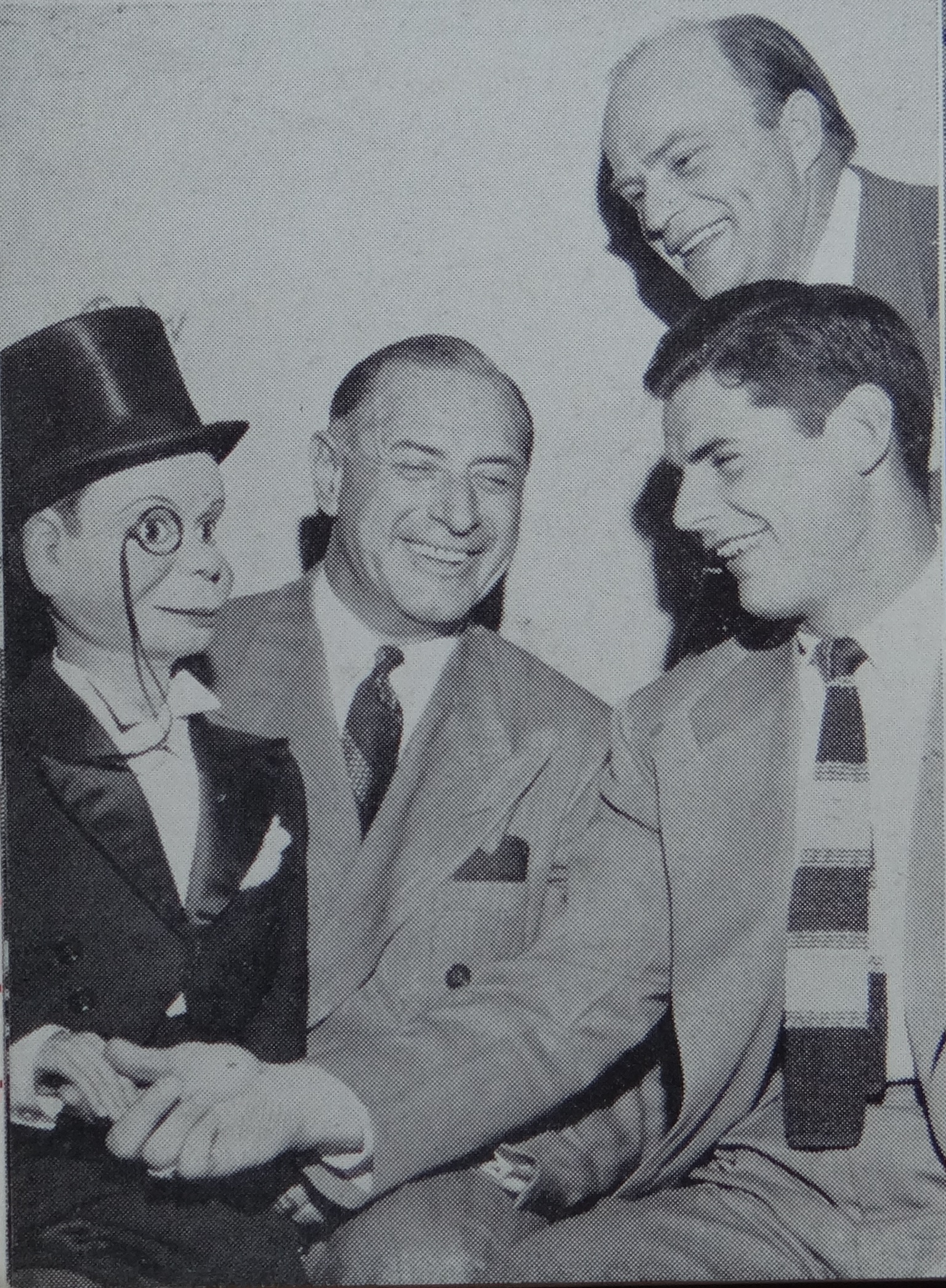 Fritz Crisler and Bob Chappuis pose with Charlie McCarthy and Edgar Bergen Photograph of University of Michigan football coach and player Fritz Crisler and Bob Chappuis pose with Charlie McCarthy and Edgar Bergen